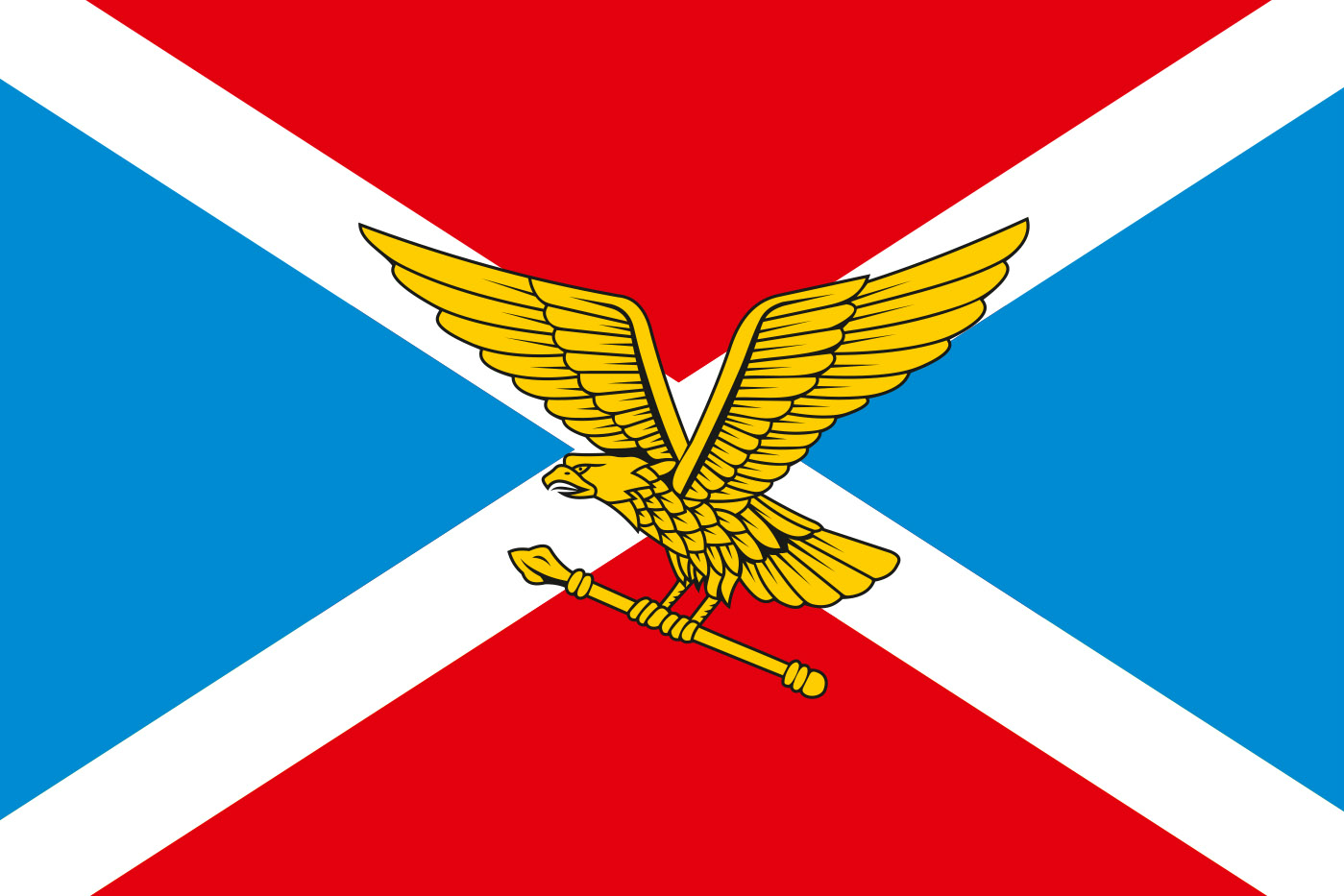 Essentuki (Stavropol krai), flag